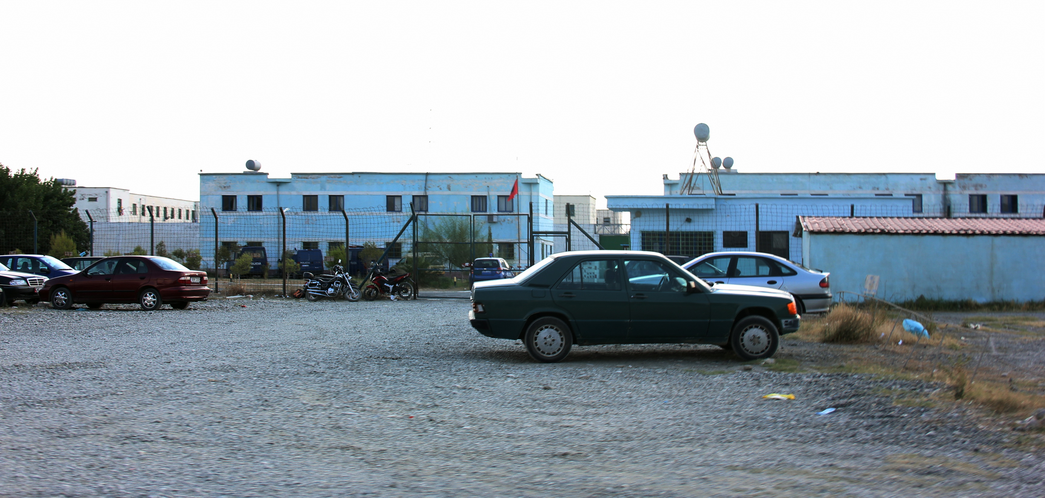 Prison Shënkoll (Lezhe) in Albania.